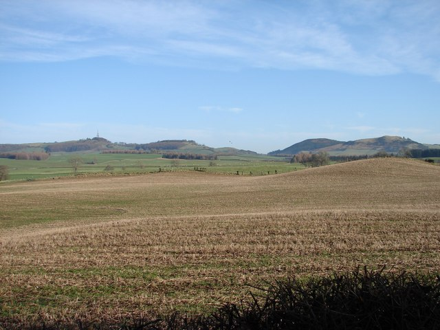 Arnmannoch: Bogrie Lane fields View over the eastern fields of Arnmannoch toward the coppices on Bogrie Lane (stream). The hills in the distance are (left to right) See Morris (WT mast), Beacon, West or Castle, and Nunland. The two tiny specks in the middle above the hills are RAF low-flying aircraft.